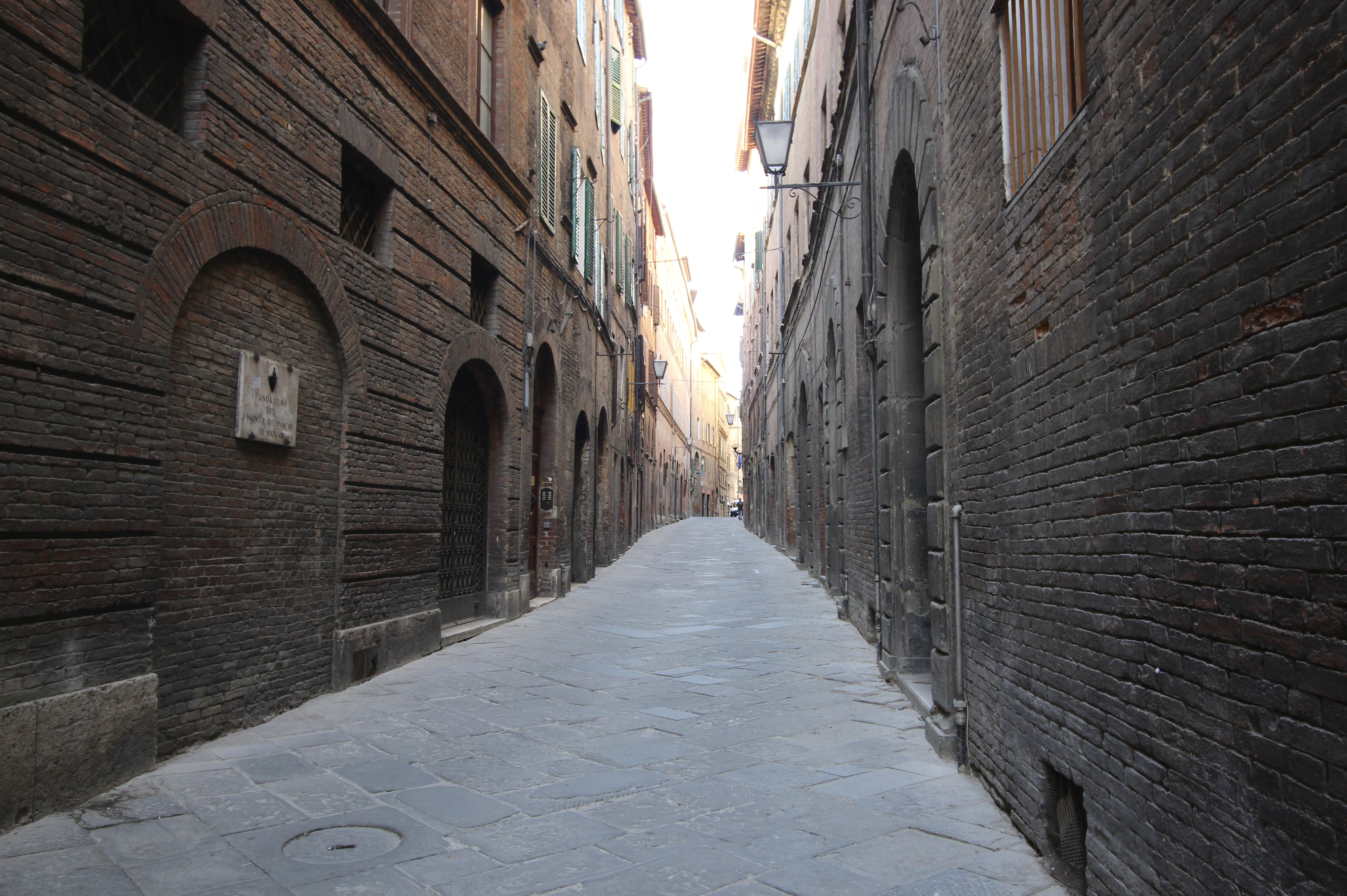 Via del Porrione, street in Siena, Terzo di San Martino, Tuscany, Italy